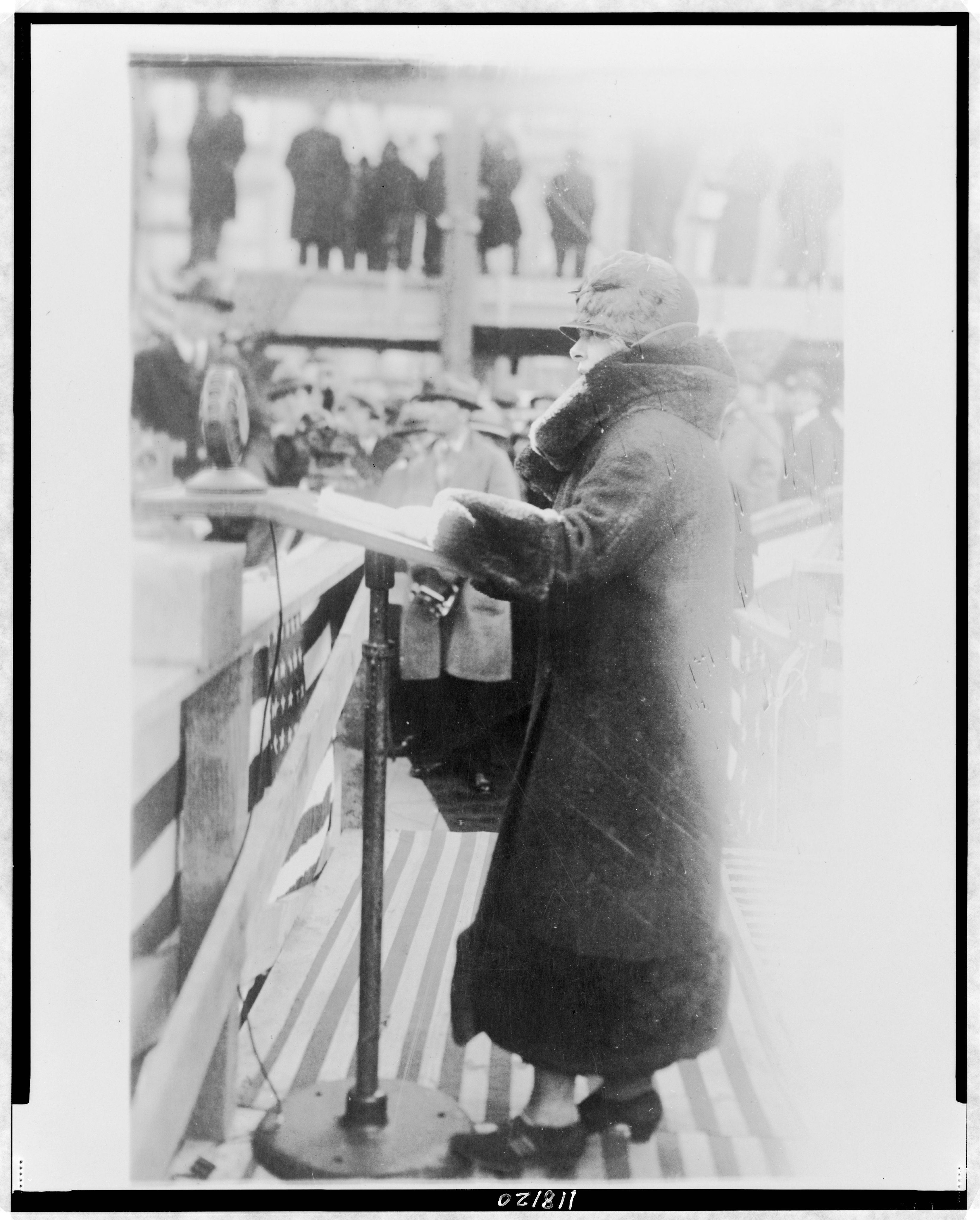 Title: Theresa Helburn at laying corner-stone of Guild Theatre Abstract/medium: 1 photographic print.